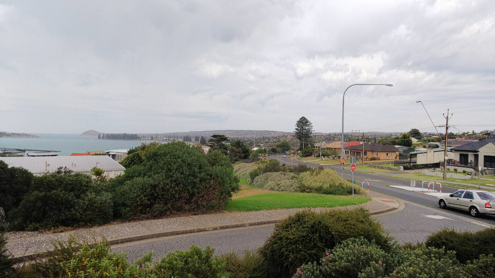 At Kleinigs Hill Lookout, McCracken, South Australia Victor Harbor and Granite Island at the back of the photo Taken on the 17th of March, 2018